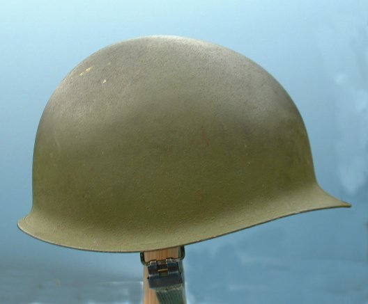 Vietnam era M1 helmet shell—side view